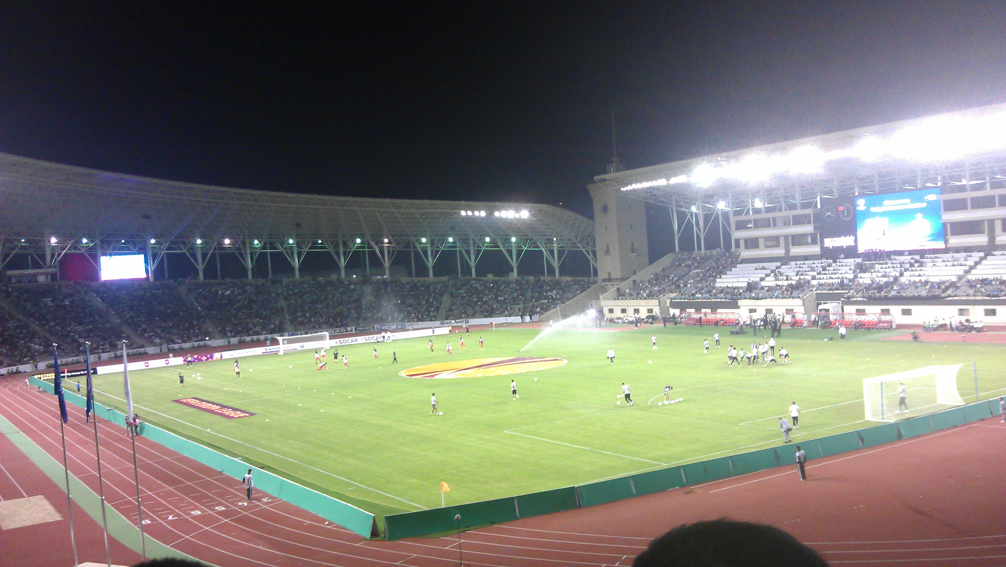 UEFA Europa League 2012-2013. Neftchi Baku-FC Internazionale Milano match. Tofiq Bahramov Stadium, Baku, Azerbaijan.